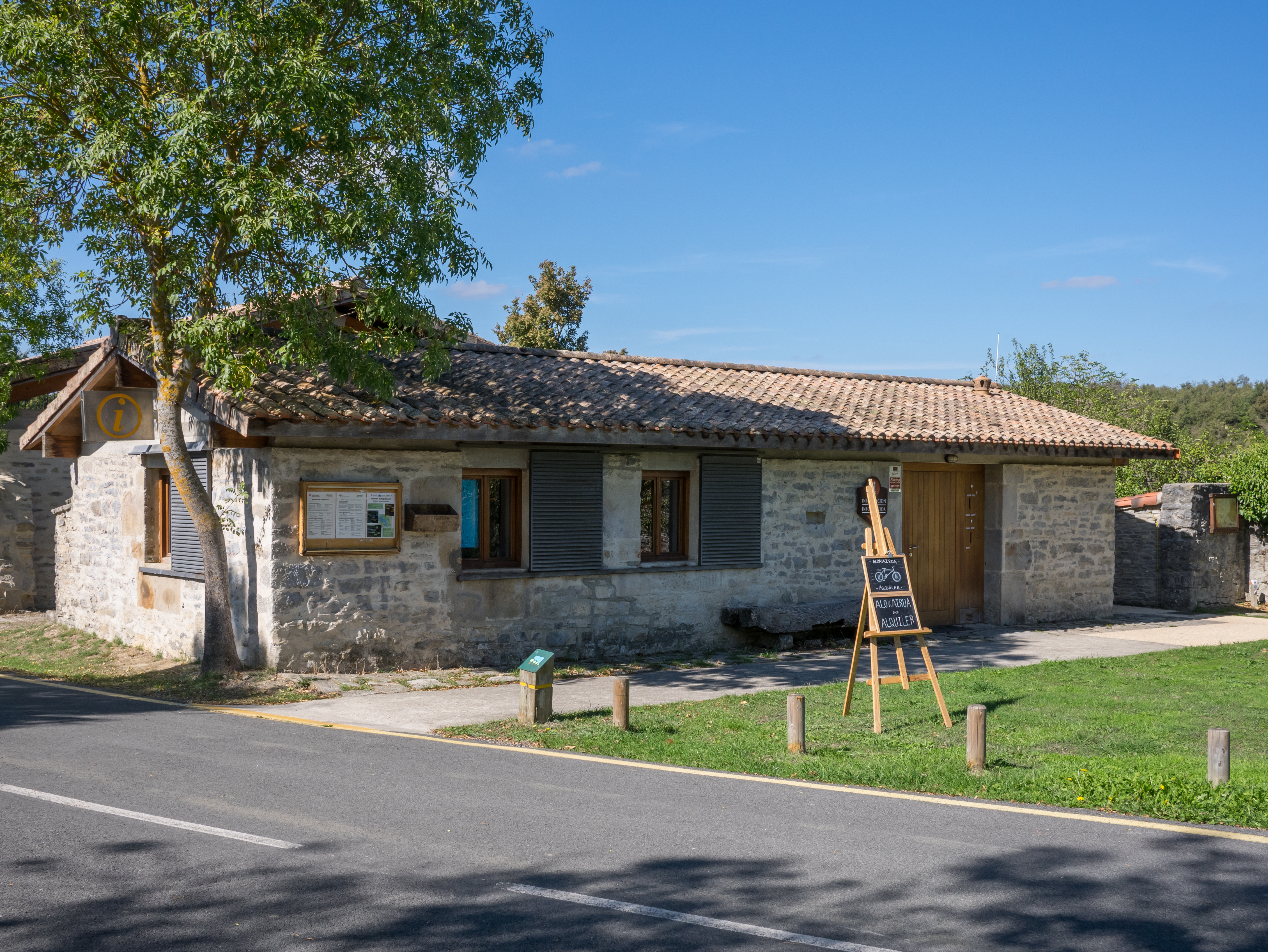 Tourist information at Garaio. Ullíbarri-Gamboa reservoir. Álava, Basque Country, Spain